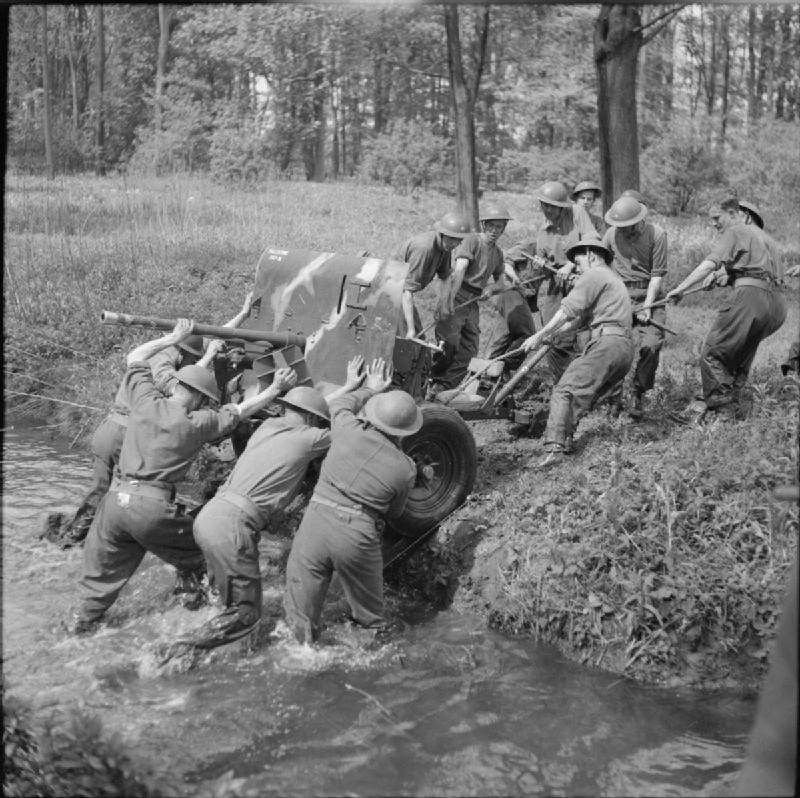 The British Army in the United Kingdom 1939-45 Men of 53rd Anti-Tank Regiment, Royal Artillery, manhandle a 2-pdr AT gun across a stream near Thirsk in Yorkshire, 26 May 1942.